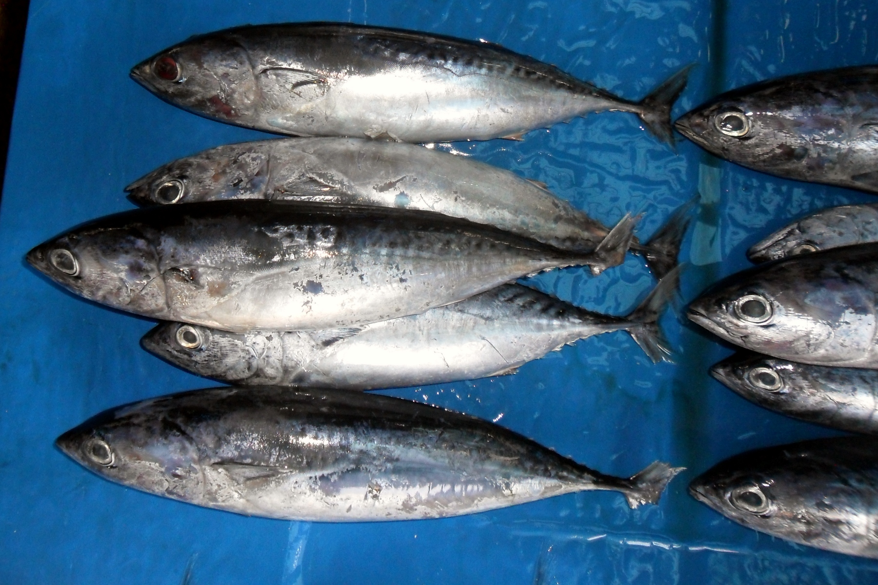 Bullet tuna, Auxis r. rochei (ca. 20 cm FL), sold at fish market in Palabuhanratu, West Java, Indonesia.